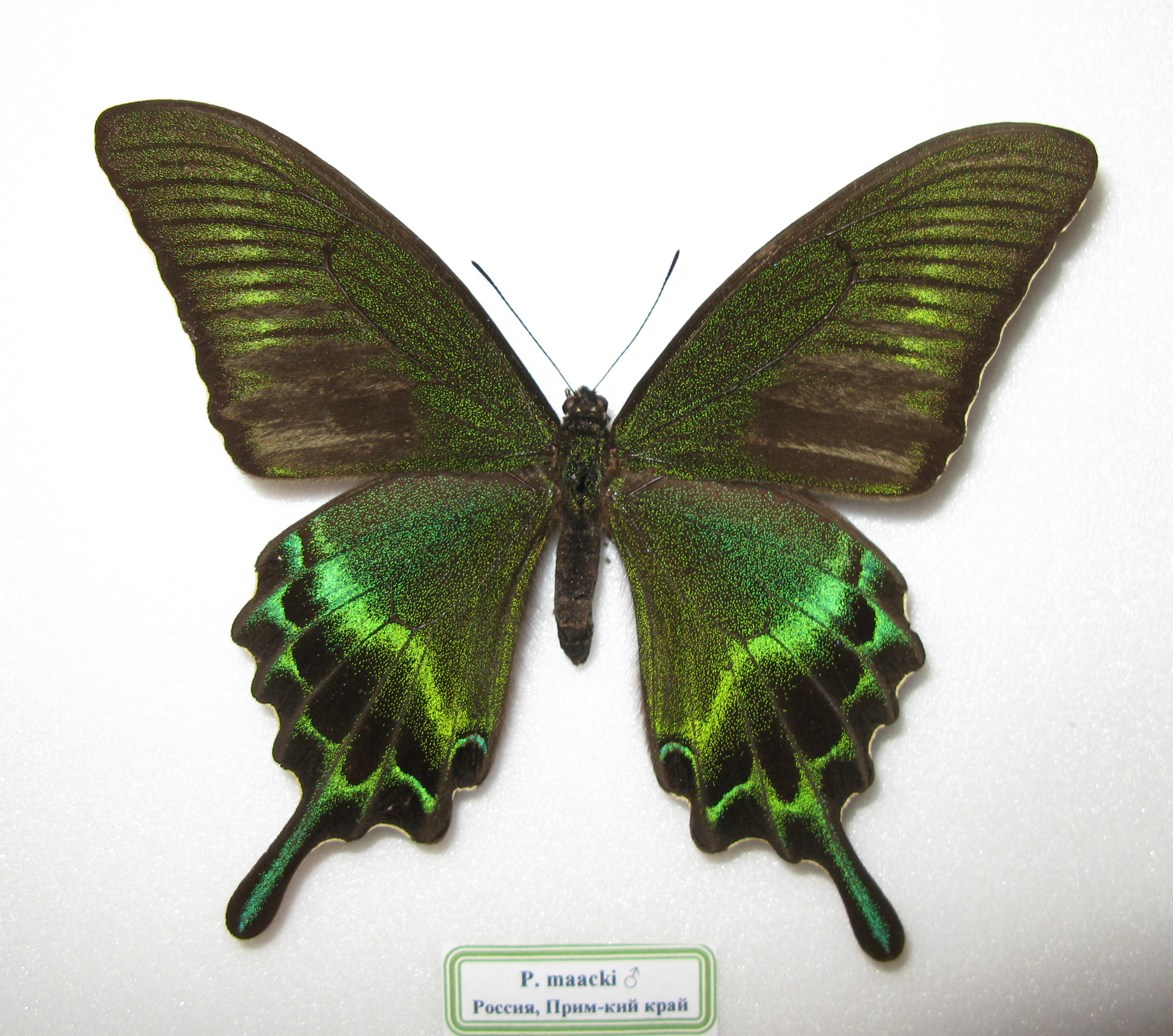 Papilio maackii male